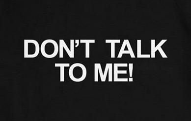 The text on the oversized sweatshirt disguised participants in "The Masked Singer" wear while on set.